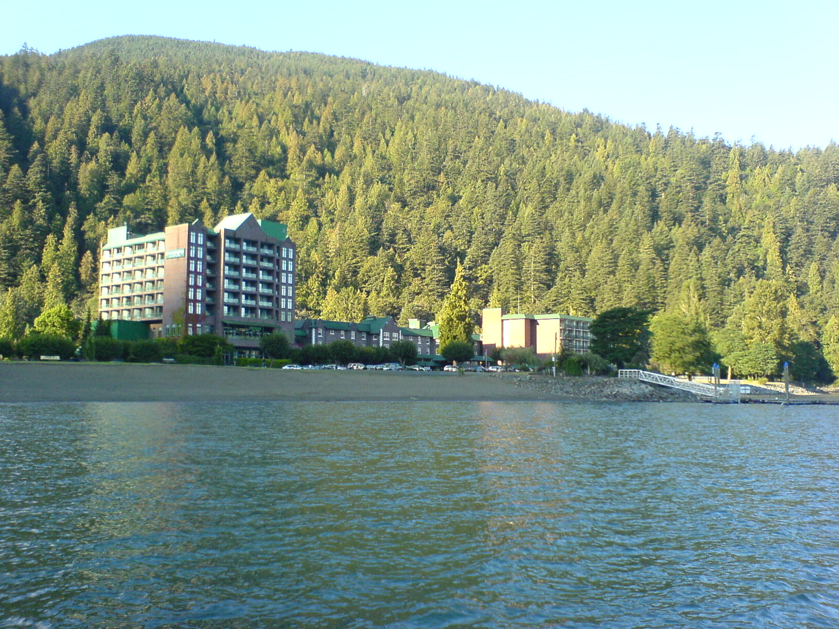 View of Harrison Hot Springs with Resort and Spa in view.